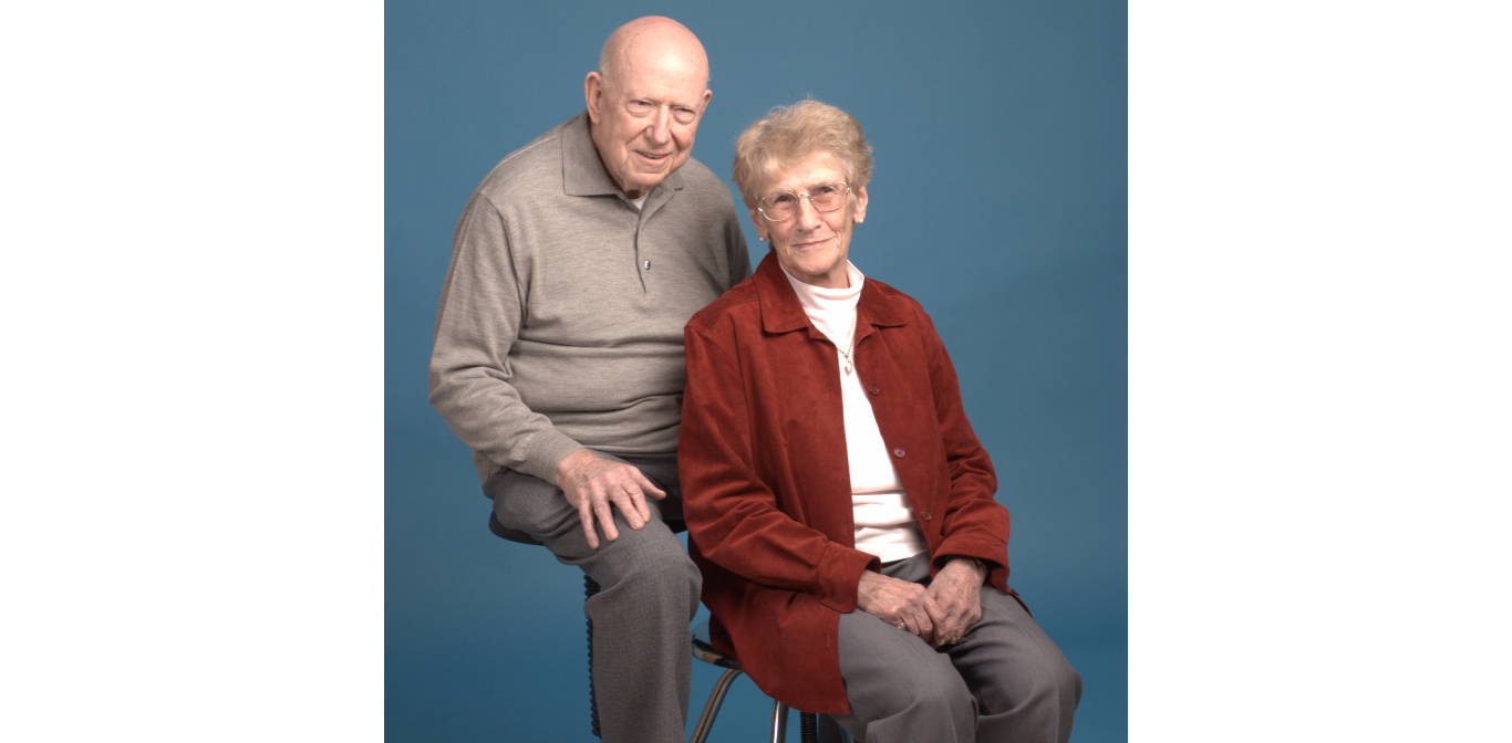 Official portrait of Earl and Thressa Stadtman. Photo by Ernie Branson. 2003